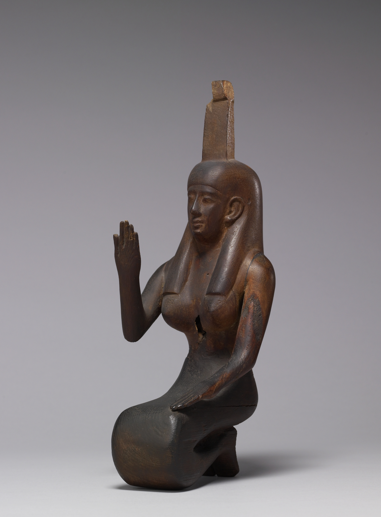 In an ancient myth, Osiris was murdered by his evil brother Seth and mourned by his wife Isis and her sister Nephthys. Isis restored Osiris's body, and he became a symbol of resurrection. Nephthys participated in the resurrection of Osiris and became associated generally with the protection of the dead. She is shown here kneeling, her arm raised in a gesture of mourning. The emblem on her head (now partially missing) consisted of the hieroglyphs for her name, meaning "Lady of the Mansion."